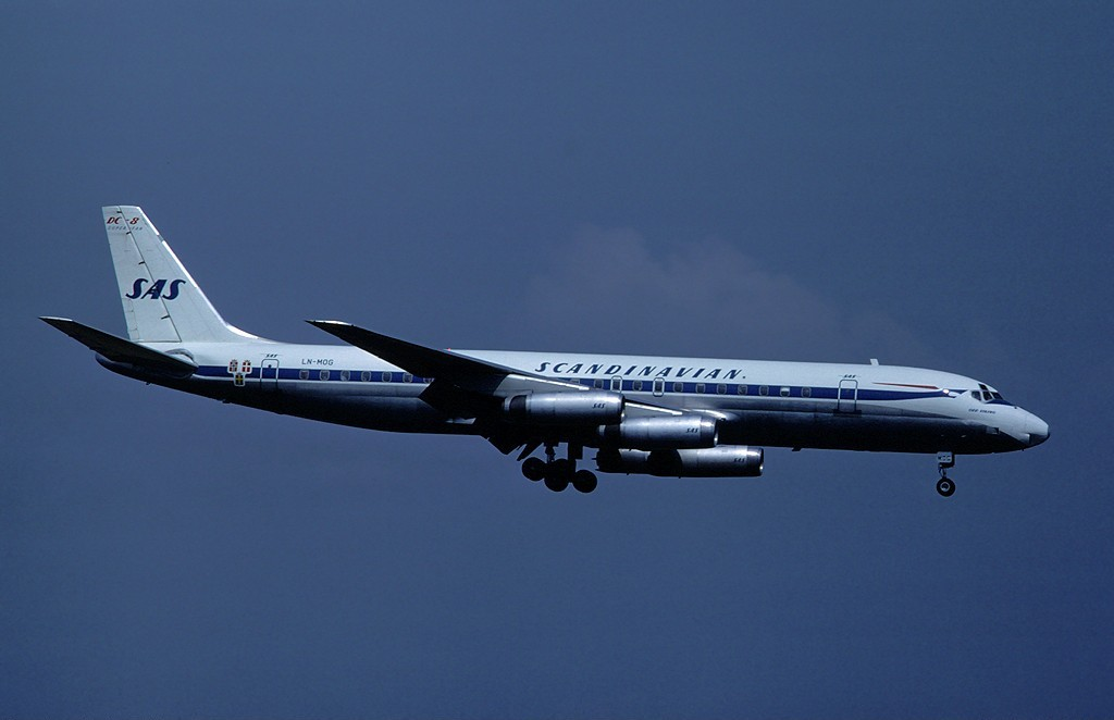 Scandinavian Airlines System Douglas DC-8-62 LN-MOG at Zurich International Airport